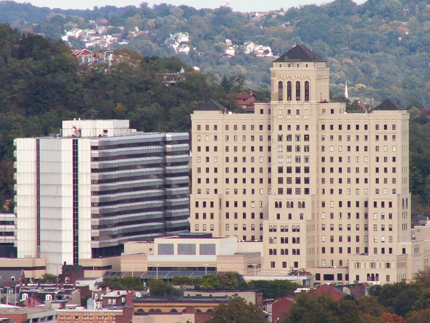 Allegheny General Hospital, on Pittsburgh’s North Side, seen from across the Ohio River at the West End Overlook